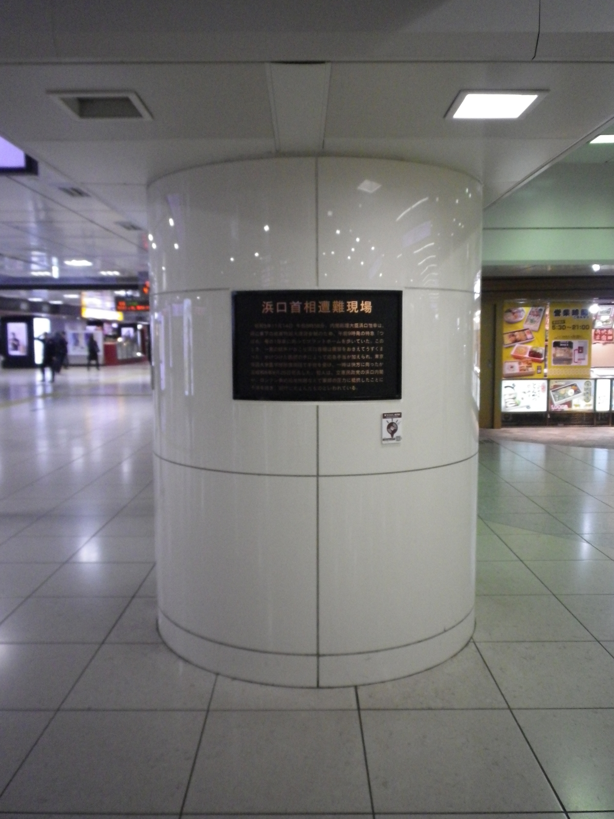 A plaque inside Tokyo Station commemorating the assassination attempt on Prime Minister Osachi Hamaguchi nearby on 14 November 1930